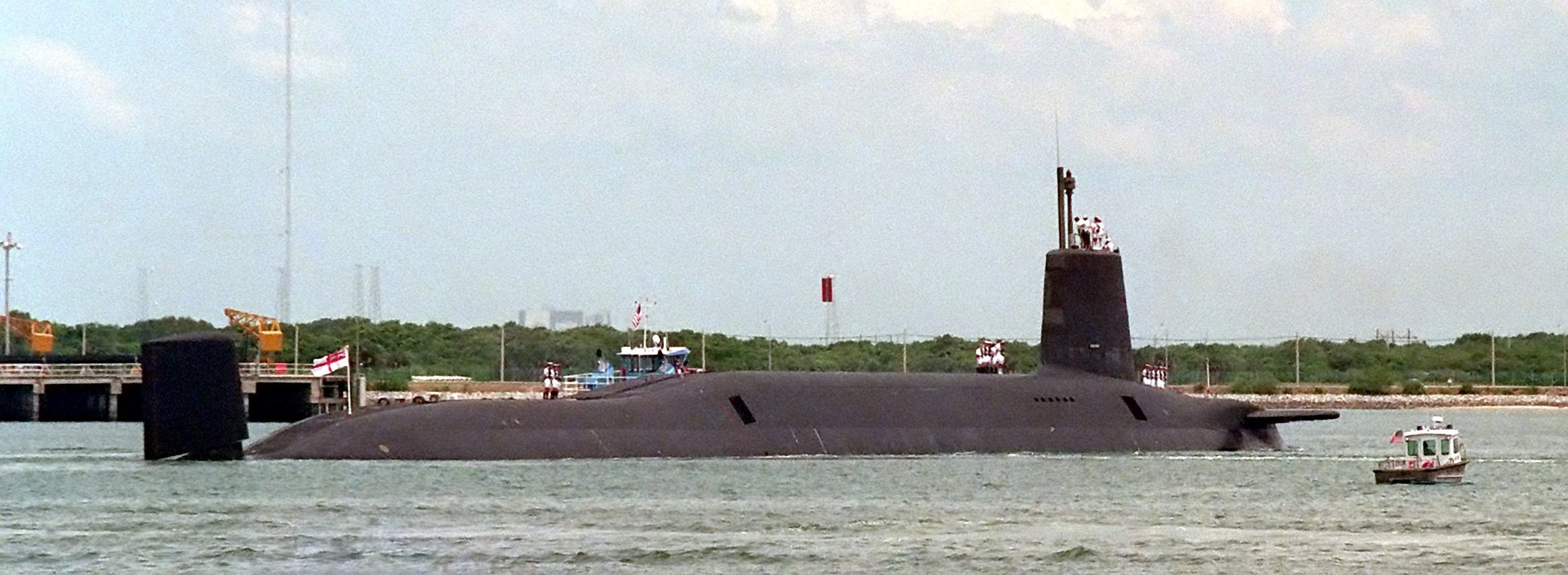 ID: DN-SC-94-01949 Service Depicted: Navy A port quarter view of the British nuclear-powered ballistic missile submarine HMS Vanguard (SSBN-50) arriving in port. Location: PORT CANAVERAL, FLORIDA (FL) UNITED STATES OF AMERICA (USA) Camera Operator: OS2 JOHN BOUVIA Date Shot: 22 Apr 1994